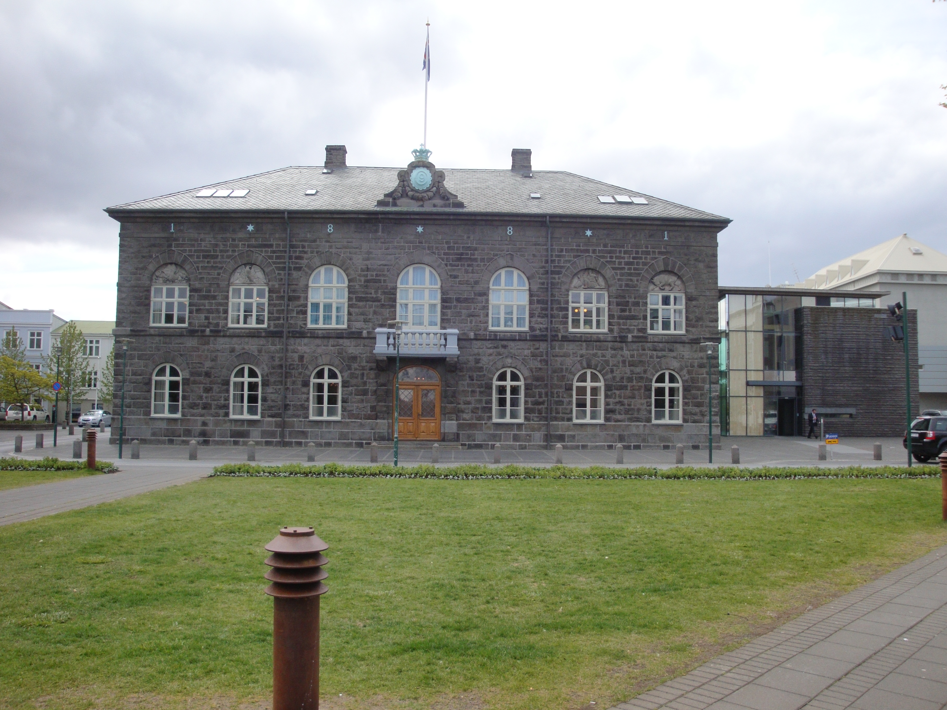 The Icelandic Althing house in Reykjavík